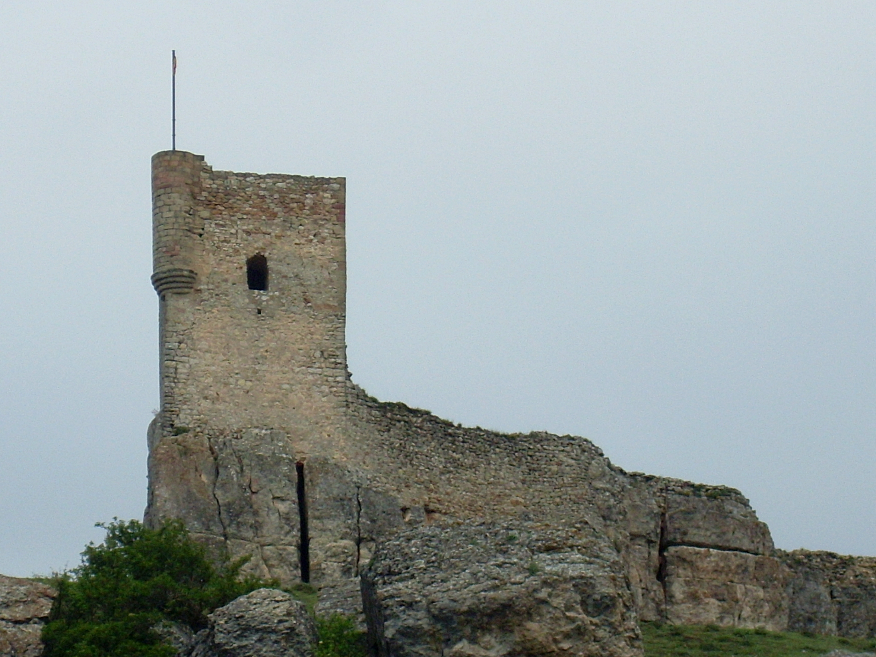 Castle of Atienza. Castle's tower. Atienza, Guadalajara -Spain